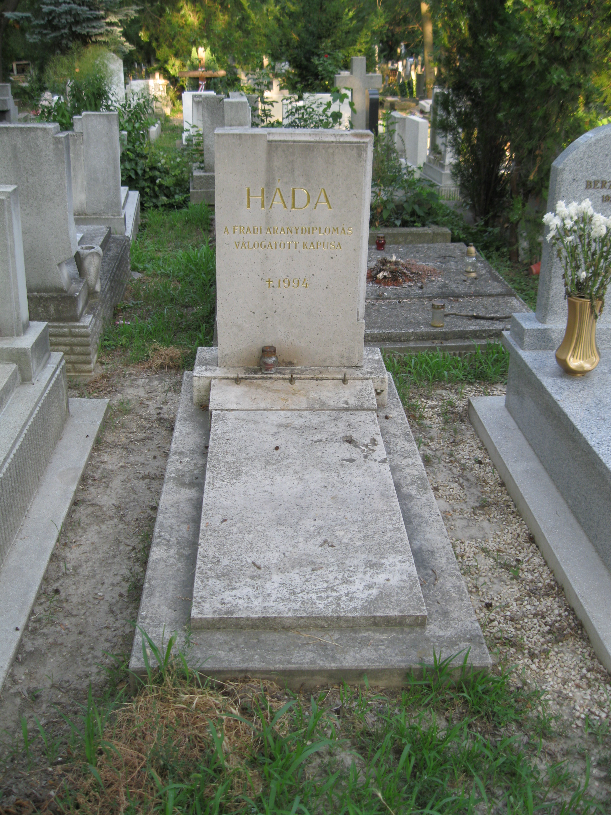 Tomb of József Háda in Farkasréti Cemetery, Budapest District XII